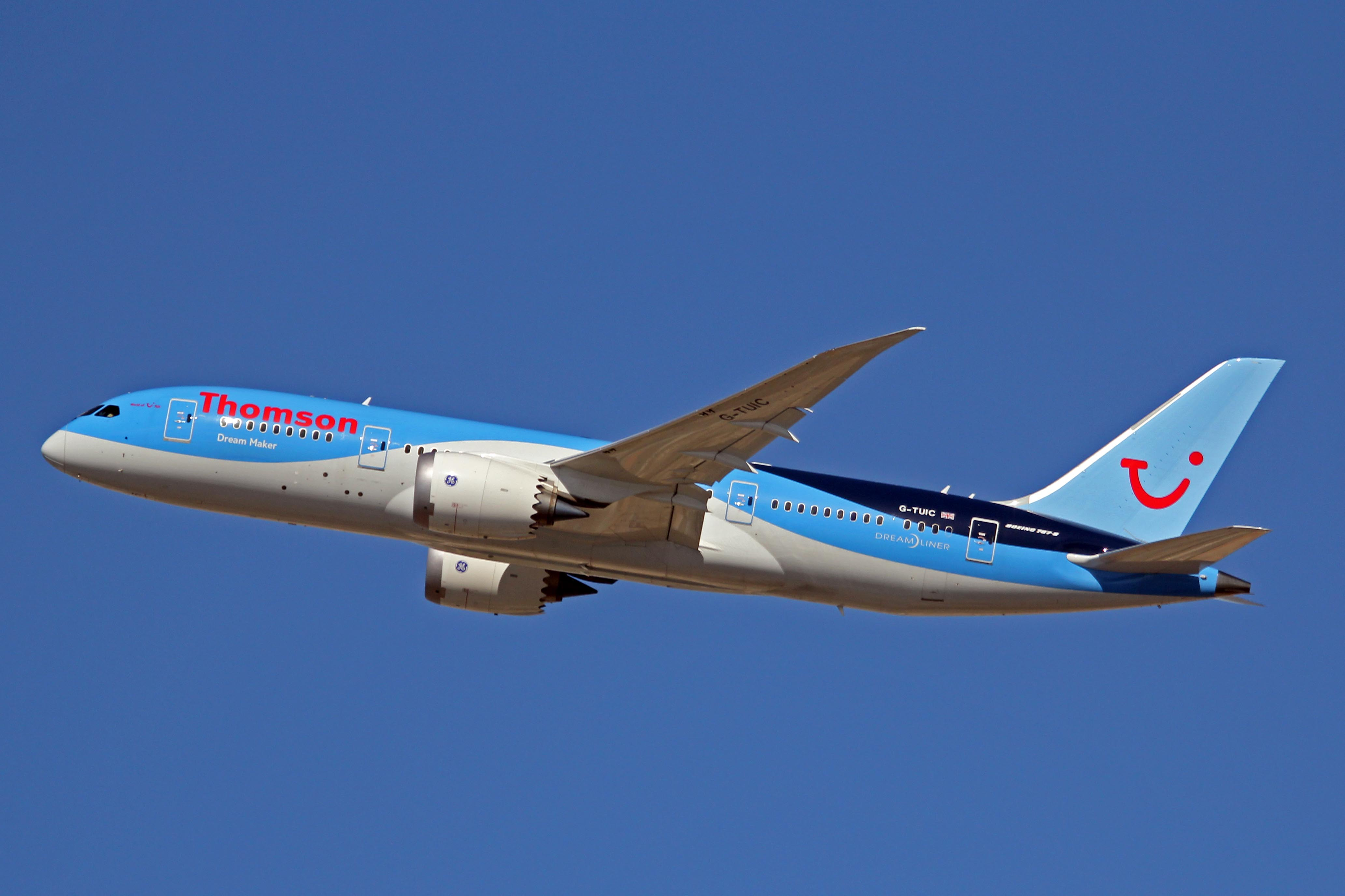 A picture of an airplane (name of it is on the file name).